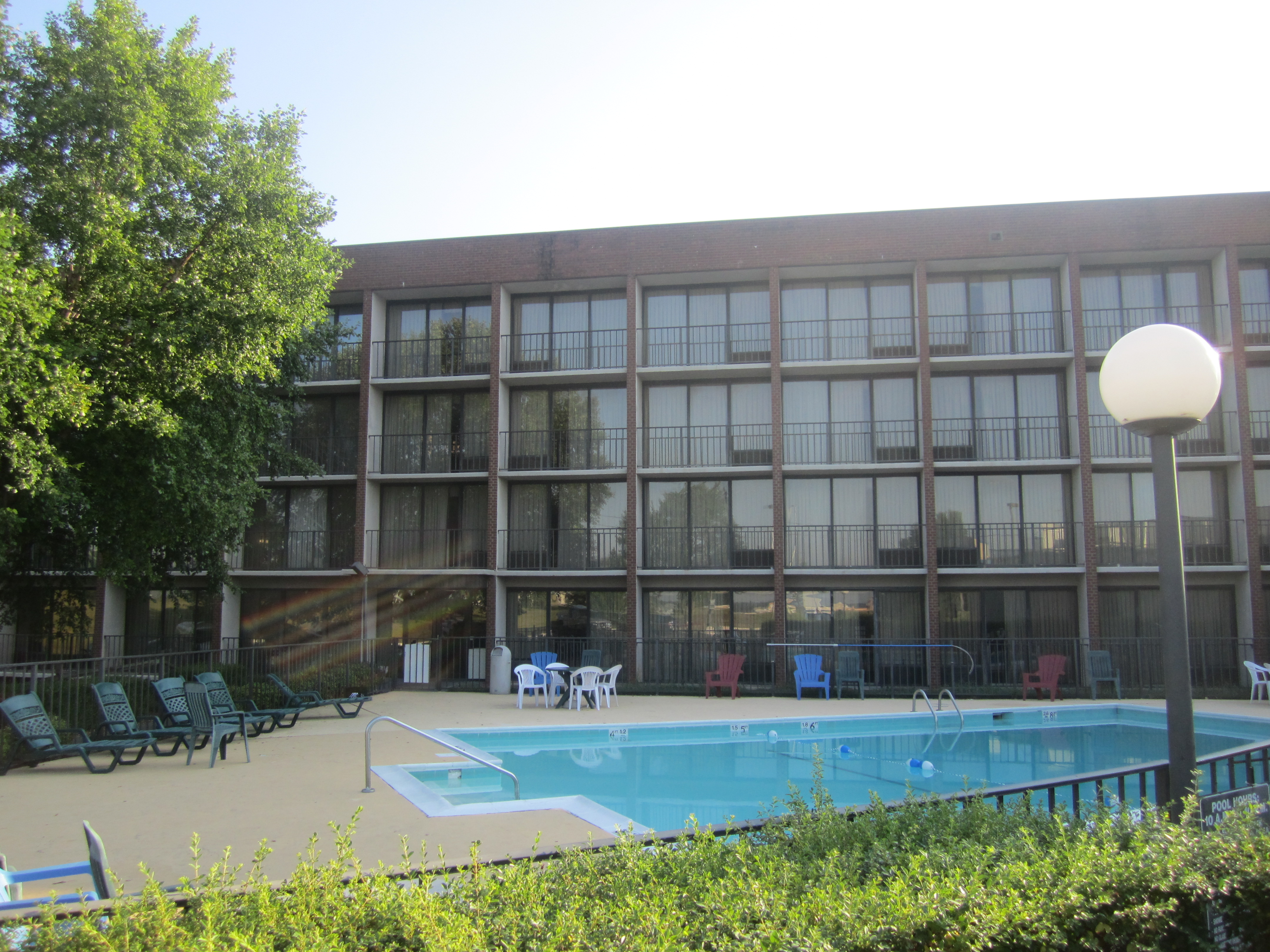 I took photo of Days Inn in Lynchburg, VA, with Canon camera.